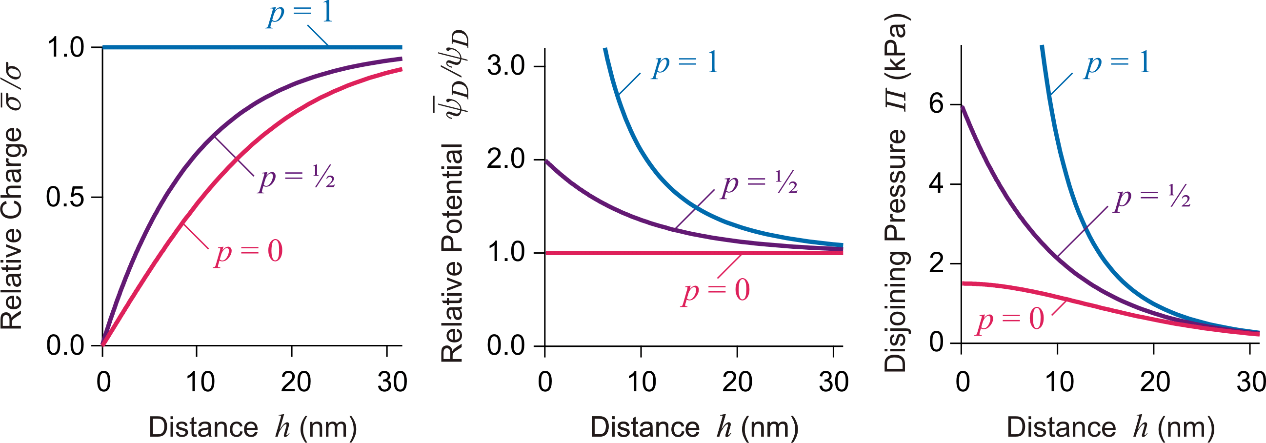 Double layer forces regulation calculation results